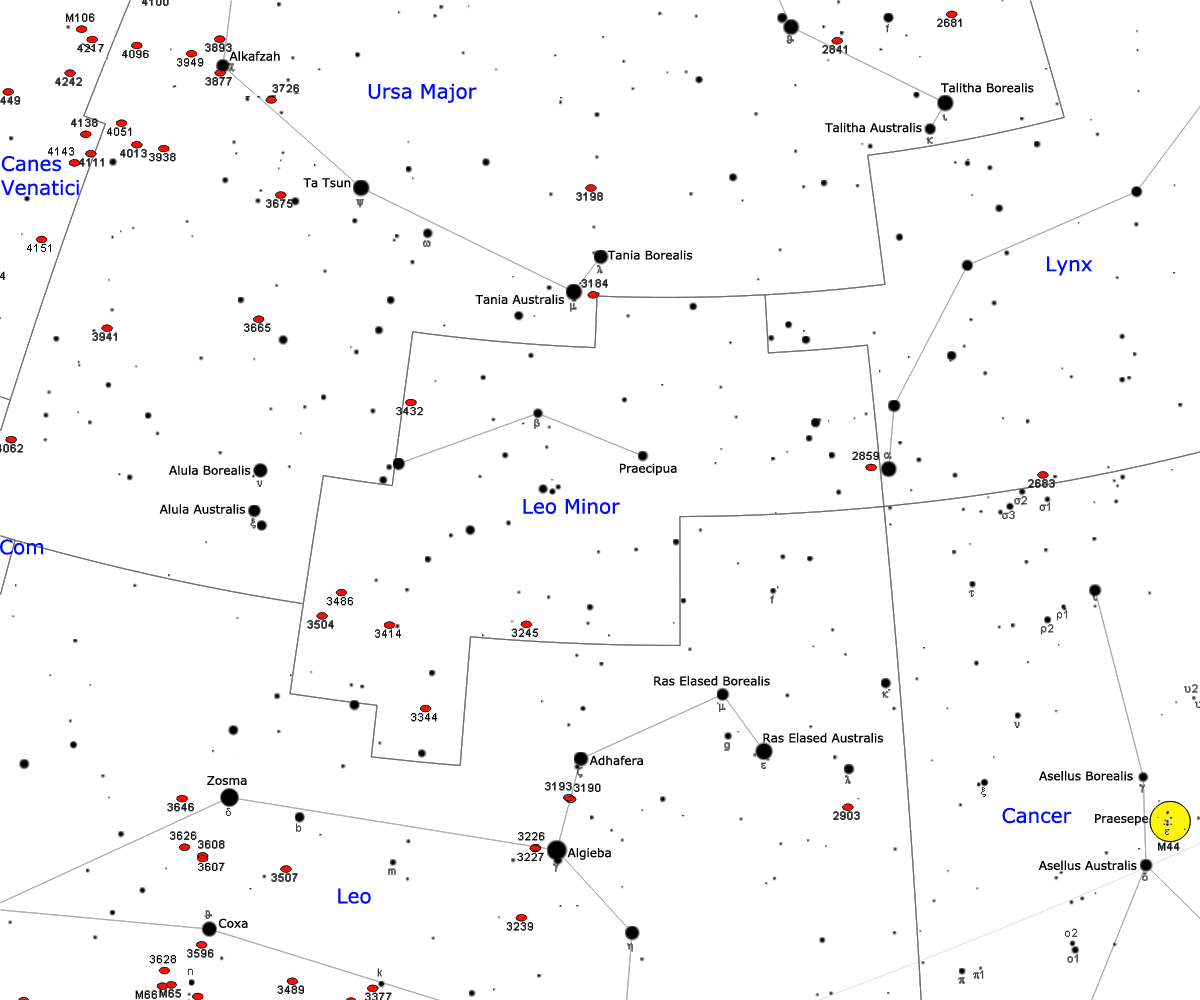 Map of Leo Minor